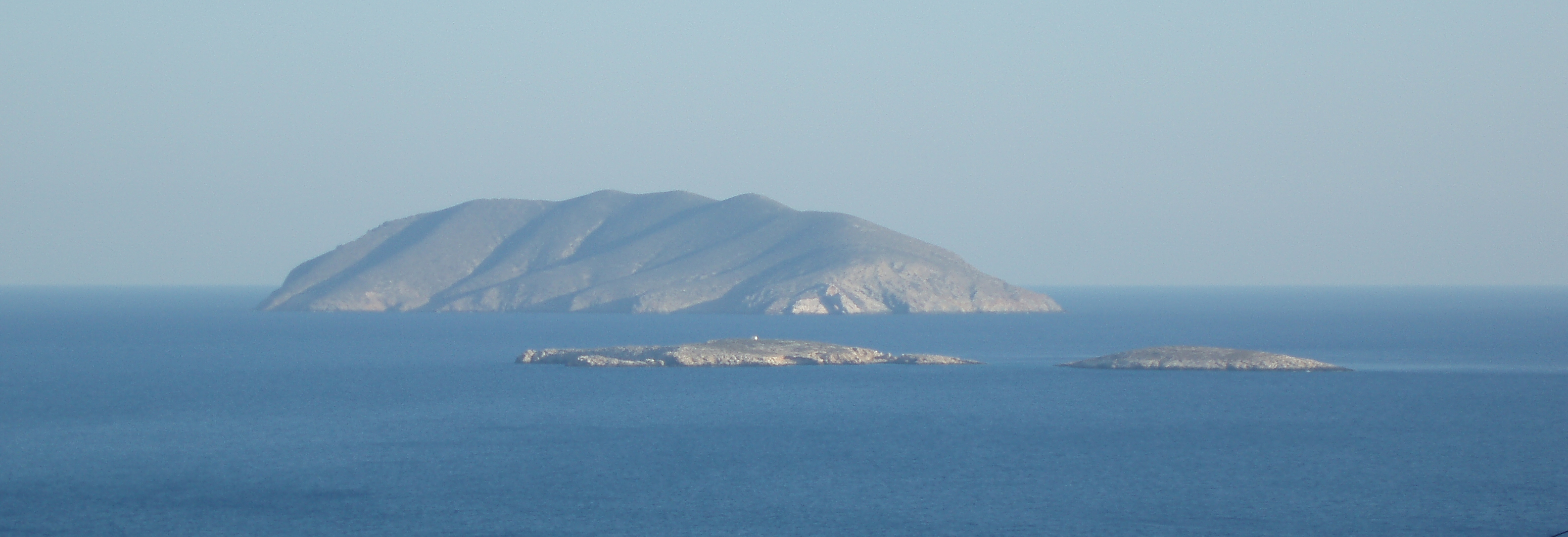 Pachia Island behind Ftena Islands, south of Anafi, Greece